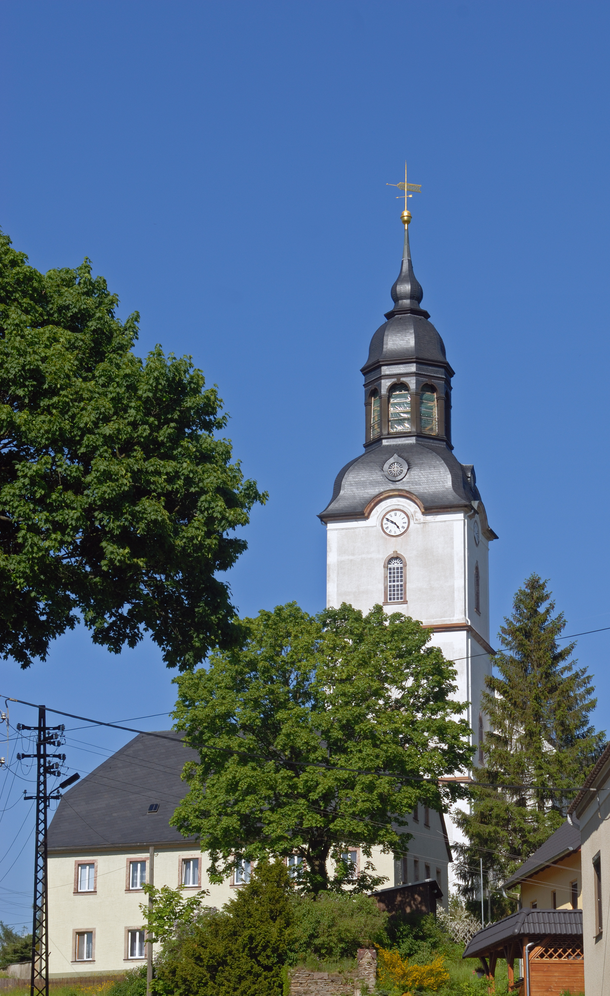 This image shows the Lutheran protestant church in Drebach, Saxony, Germany.